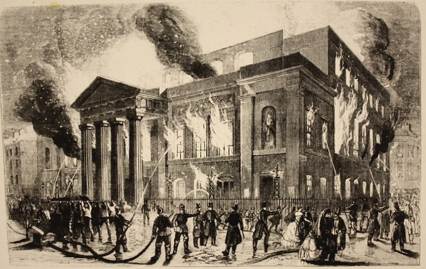 Fire at Covent Garden Theatre, London, on 5 March 1856; from the Illustrated Times, 15 March 1856.